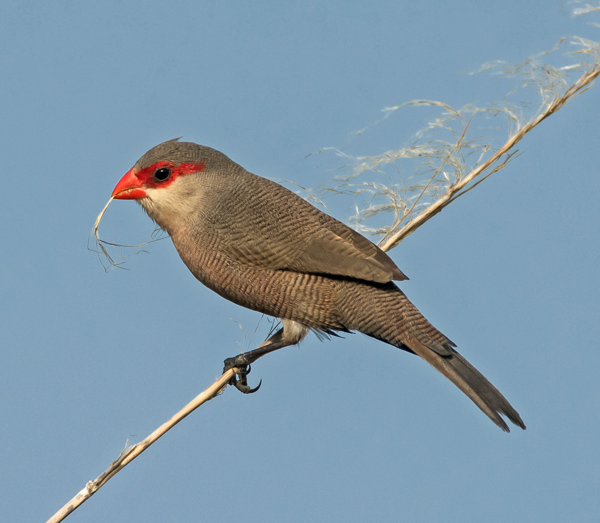 An adult Common Waxbill on Gran Canaria, Spain.